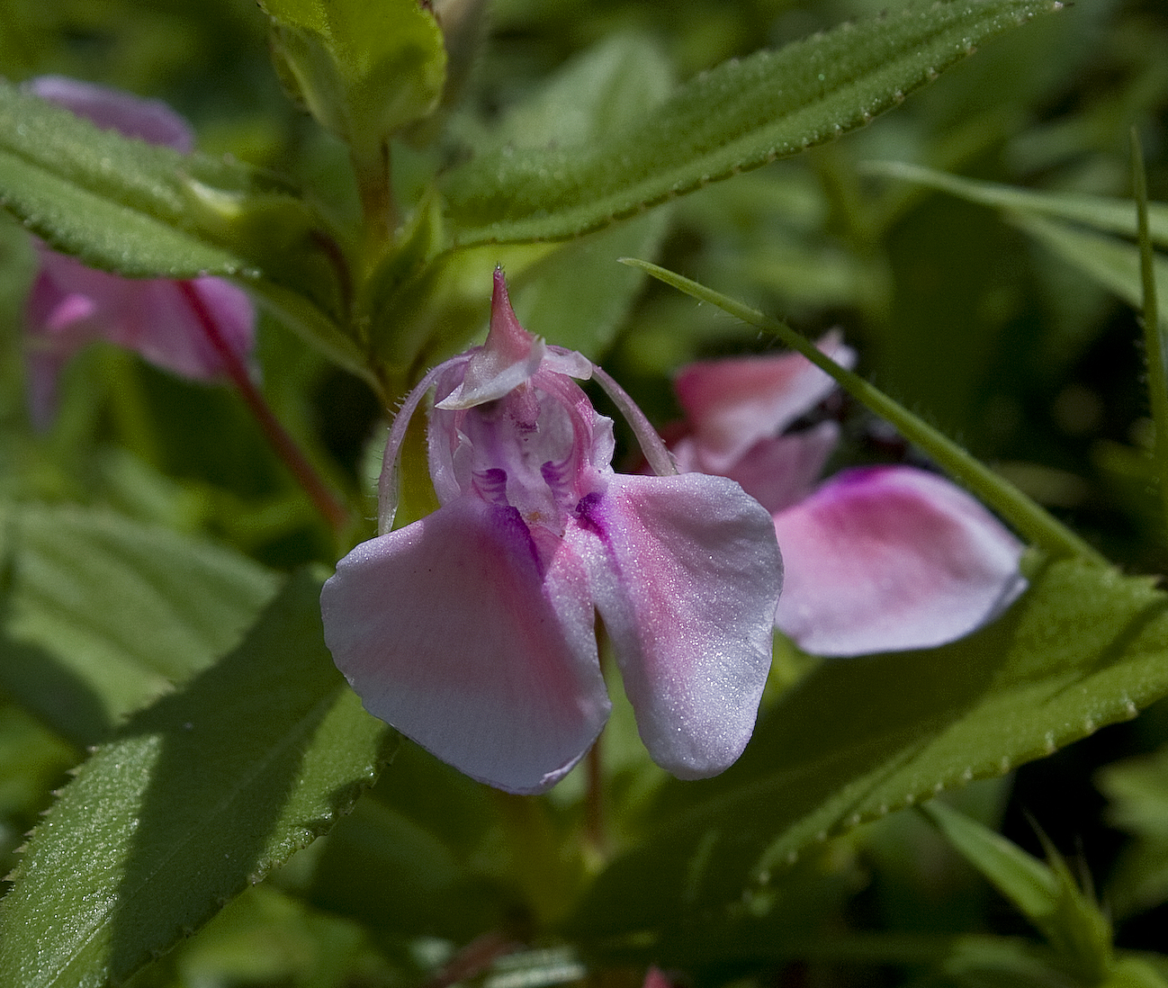 Impatiens Lawii is native to peninsular India, its common name is Law's Balsam. Law's Balsam is an annual herb, 10-30 cm tall.